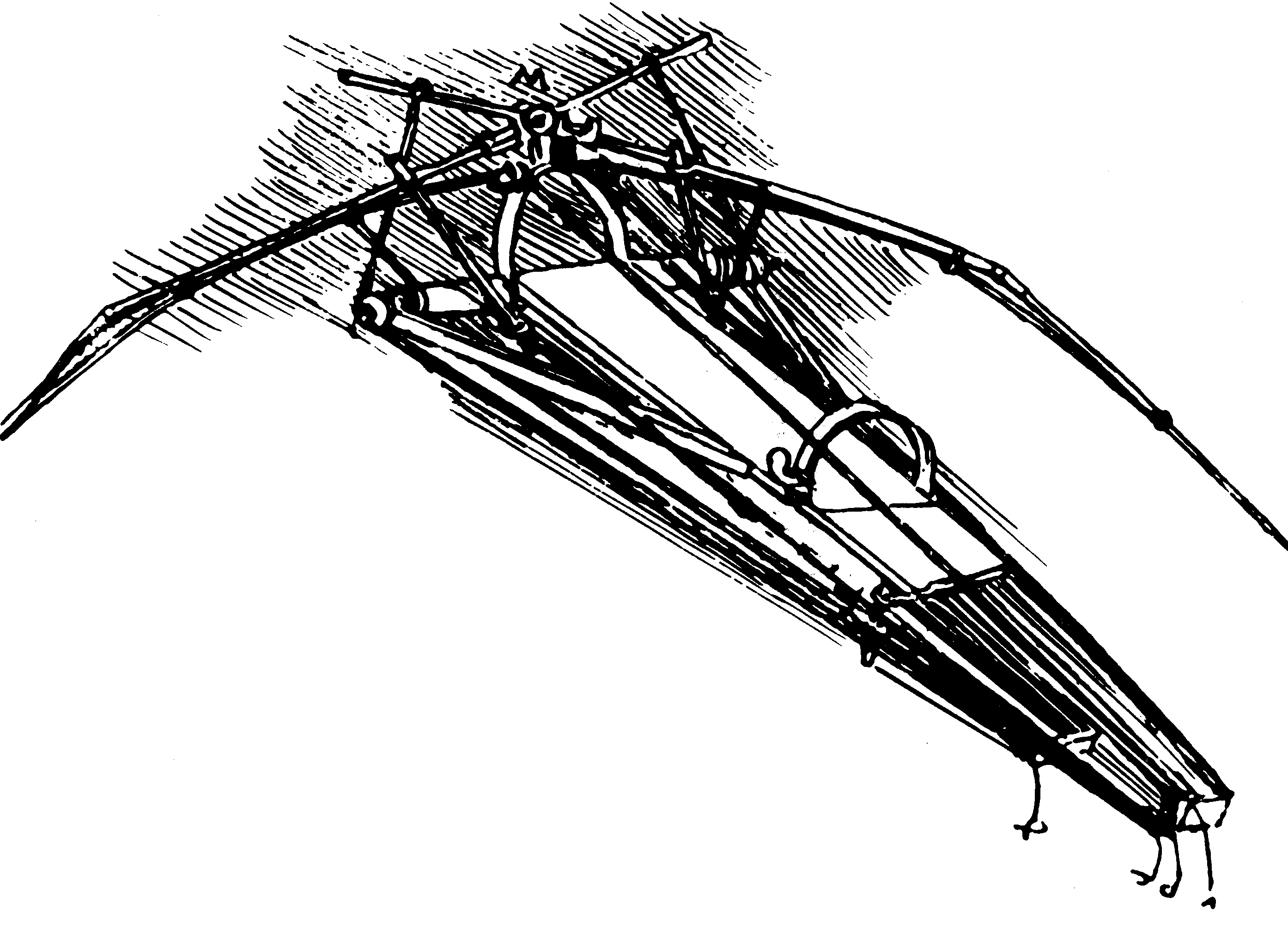 A Ornithoper by Leonardo da Vinci